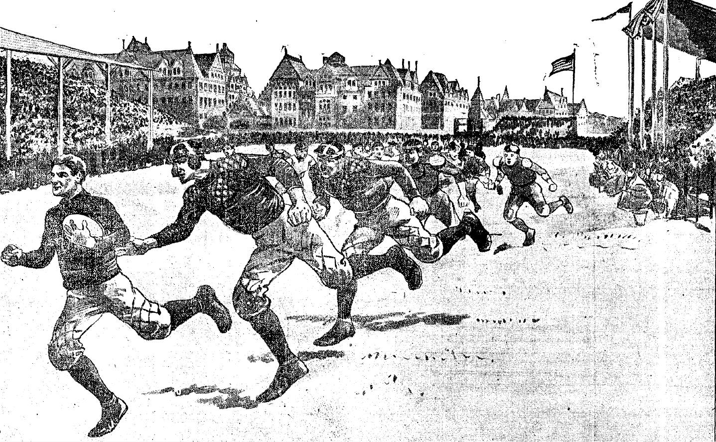 Charles Widman's touchdown run against the University of Chicago, November 24, 1898